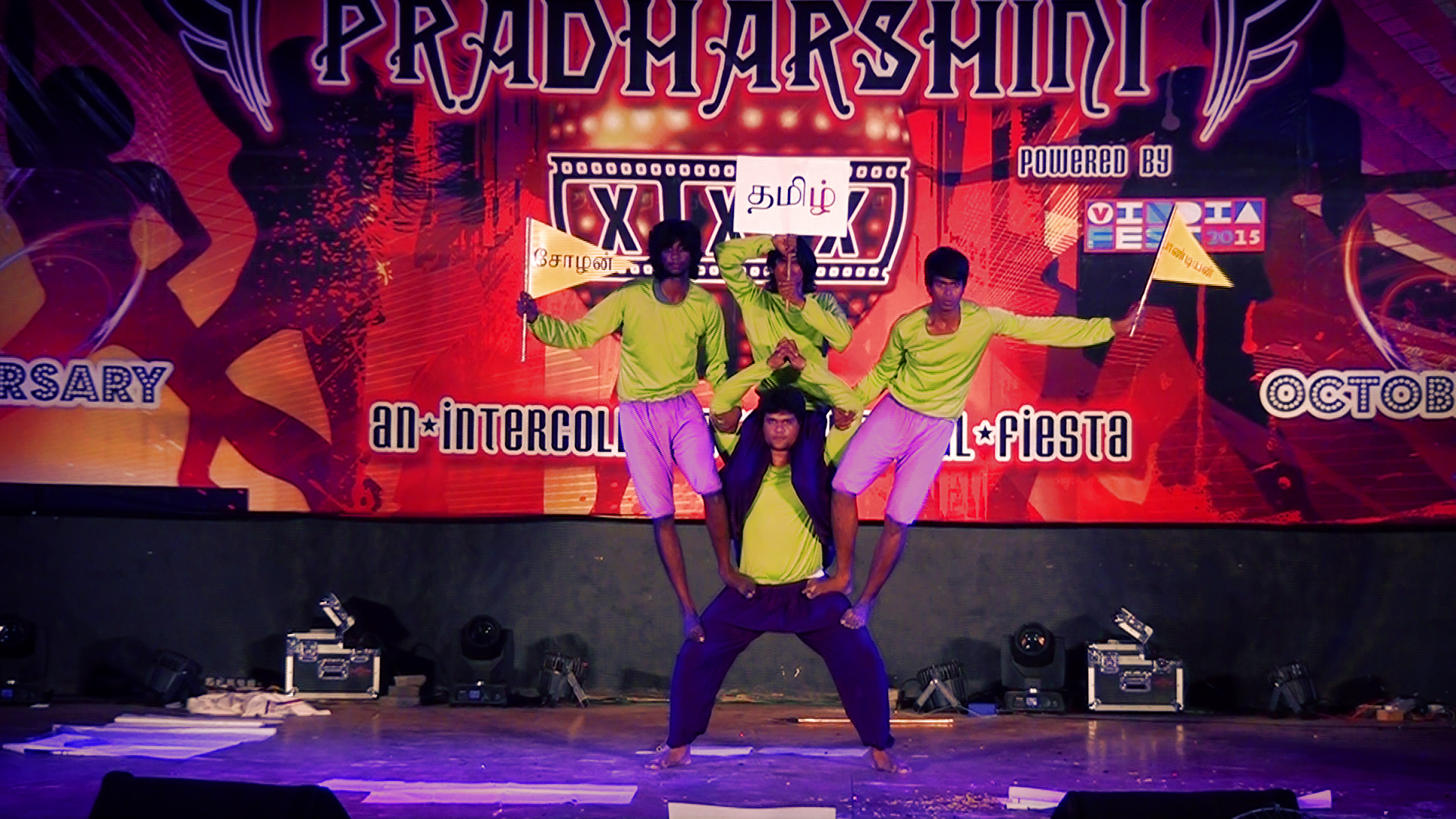 Variety Variety ar Pradharshini 2014